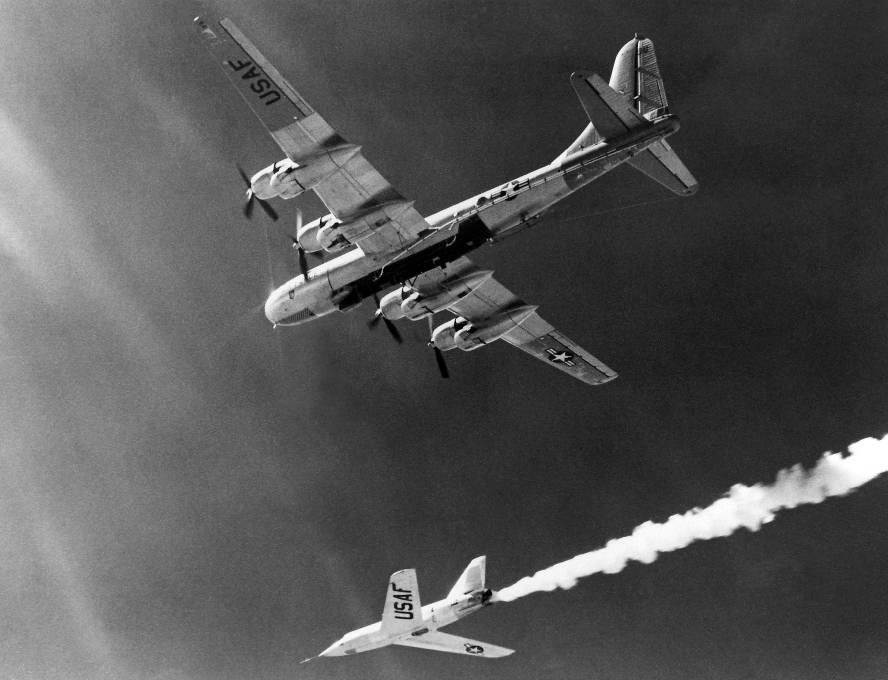 The Bell Aircraft Company X-2 (46-674) drops away from its Boeing B-50 mothership in this photo. Lt. Col. Frank "Pete" Everest piloted 674 on its first unpowered flight on August 5 1954. He made the first rocket-powered flight on November 18, 1955. Everest made the first supersonic X-2 flight in 674 on April 25, 1956, achieving a speed of Mach 1.40. In July, he reached Mach 2.87, just short of the Mach 3 goal.